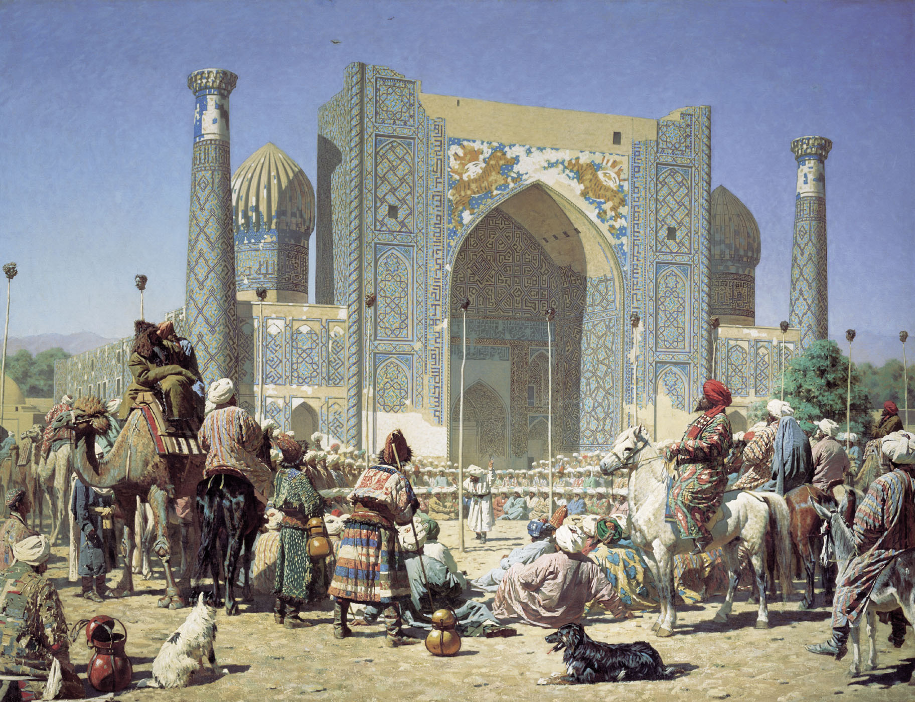 Central Asia, Samarkand, Registan. A celebration of victory over an enemy. The Emir of Bukhara and the notables of the city watch how the heads of Russian soldiers are impaled on poles.